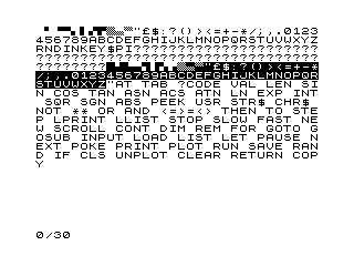 Screenshot of the output of the following simple ZX81 Sinclair Basic program which demonstrates the machine's character set for all code points; 0–255. 10 FOR C=0 TO 255 20 PRINT CHR$ C; 30 NEXT C Notes: The output includes tokenized BASIC keywords and non-printable characters such as 67–127 and 195 which appear as question marks (although some are used as control codes). Code point 11 is the double quote character (") when used in the video memory (called the display file). CHR$ 192 prints as the same character but that code point shows as two double quote characters ("") in BASIC listings and is used for including a single literal double quote character (") in a string without it being interpreted as a string delimiter.